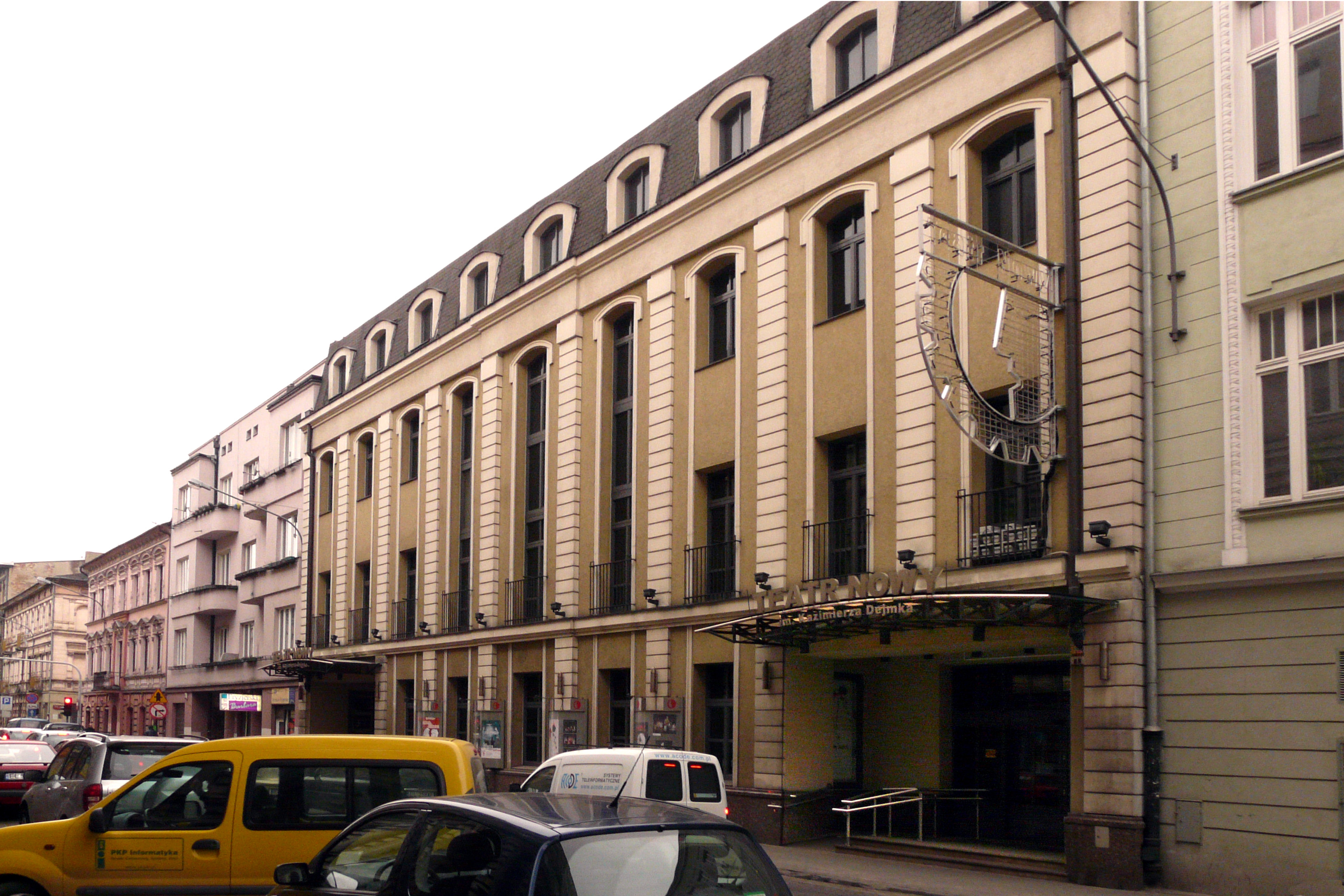 New Theatre in. Lodz, Poland